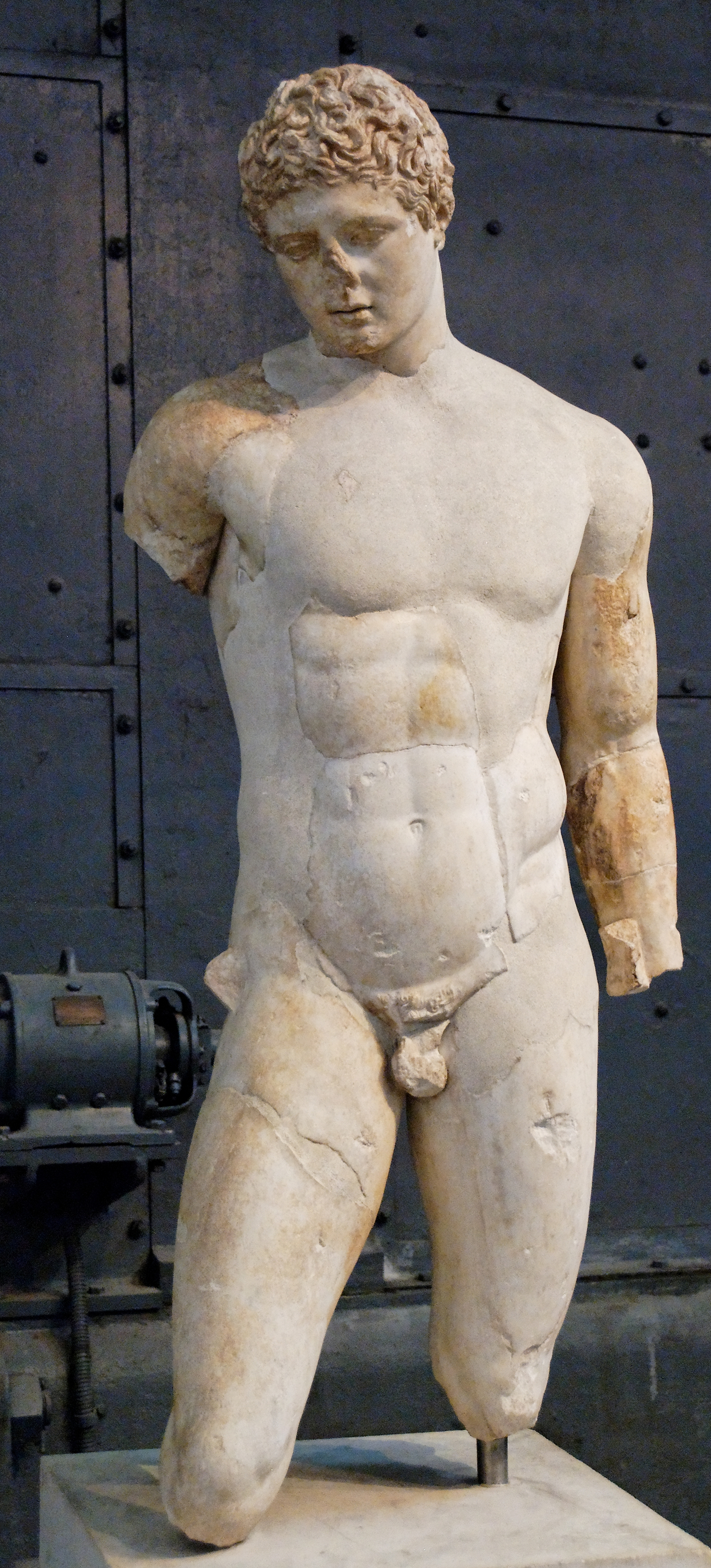 Discophorus (disk-bearer). Roman copy of a Greek original of the late Classical period attributed to Naukydes.